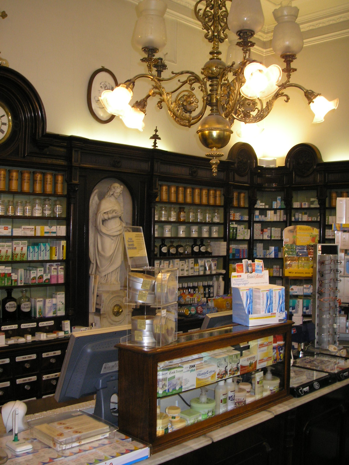 Facade of the drug store "Apotheke zum weißen Engel" in Vienna's first district Innere Stadt.